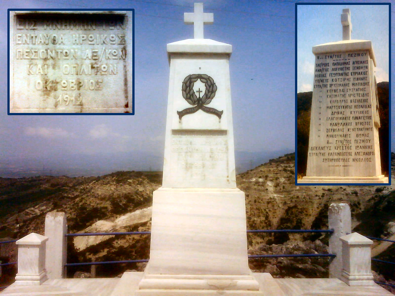 Monument commemorating the lost fighters of 1912, during the First Balkan War, at a battle site in west Macedonia, Greece.